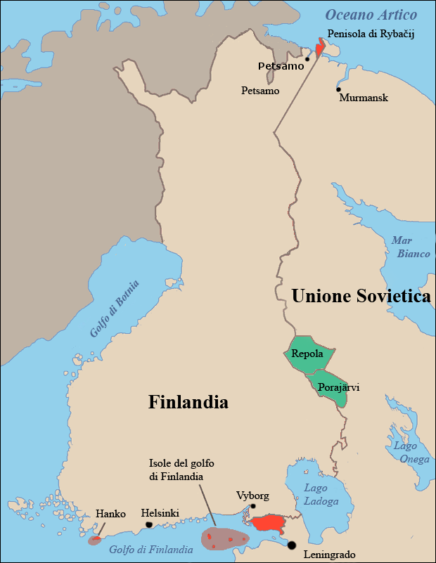 Finland-Soviet Union border October-November 1939